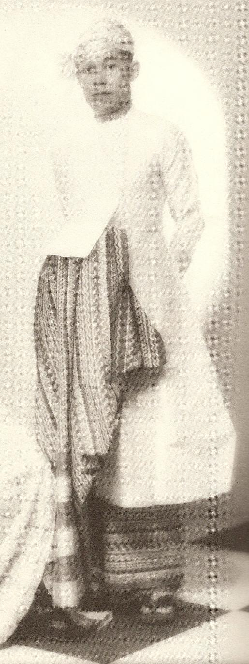 Dr. Ba Maw at King George's coronation